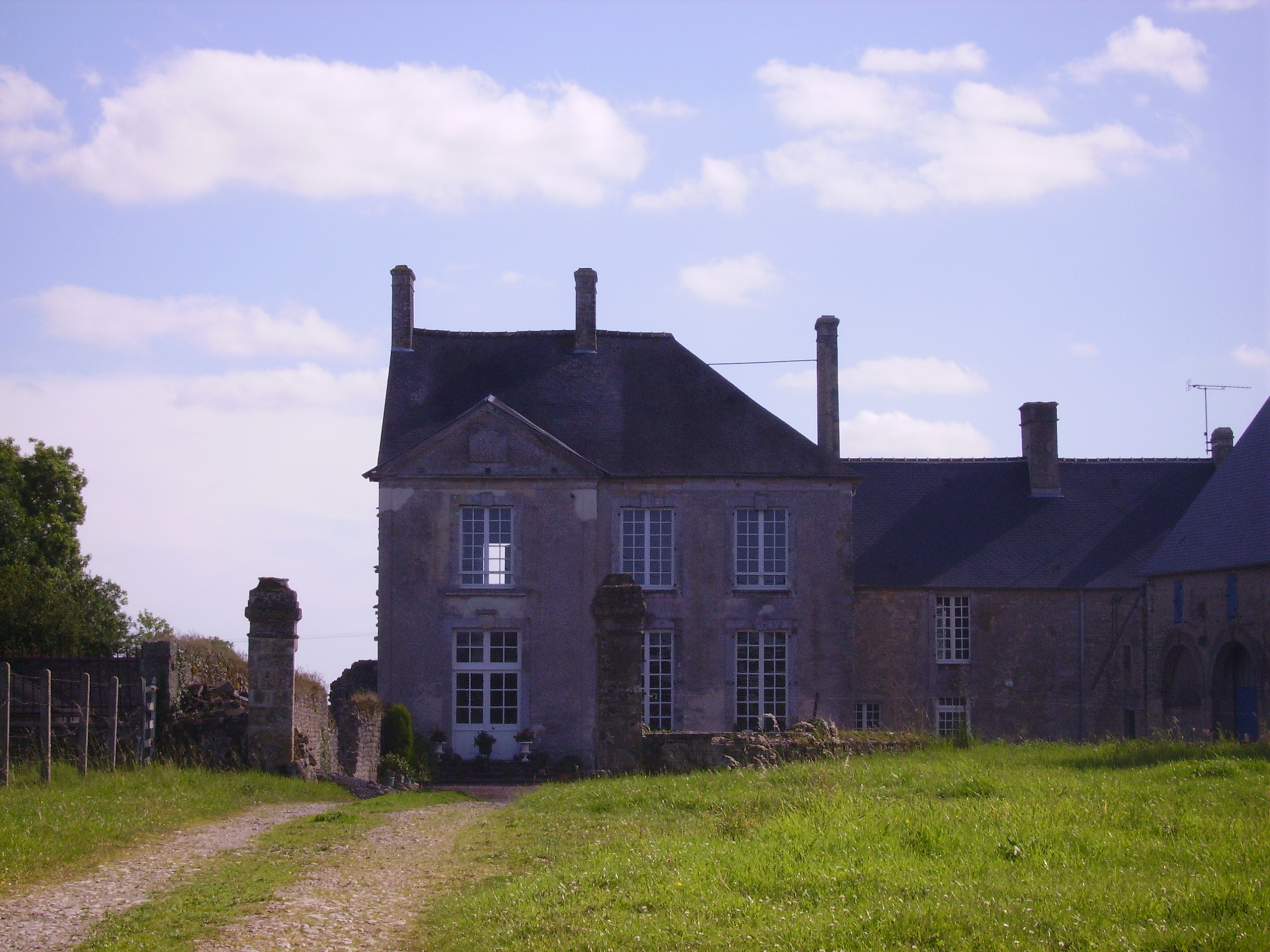 Photograph of the "Chateau de La Magdeleine" in Longueville in France, the building construction started in the years 1776-1777 by Michel Tallevast and was interrupted by during the French Revolution.